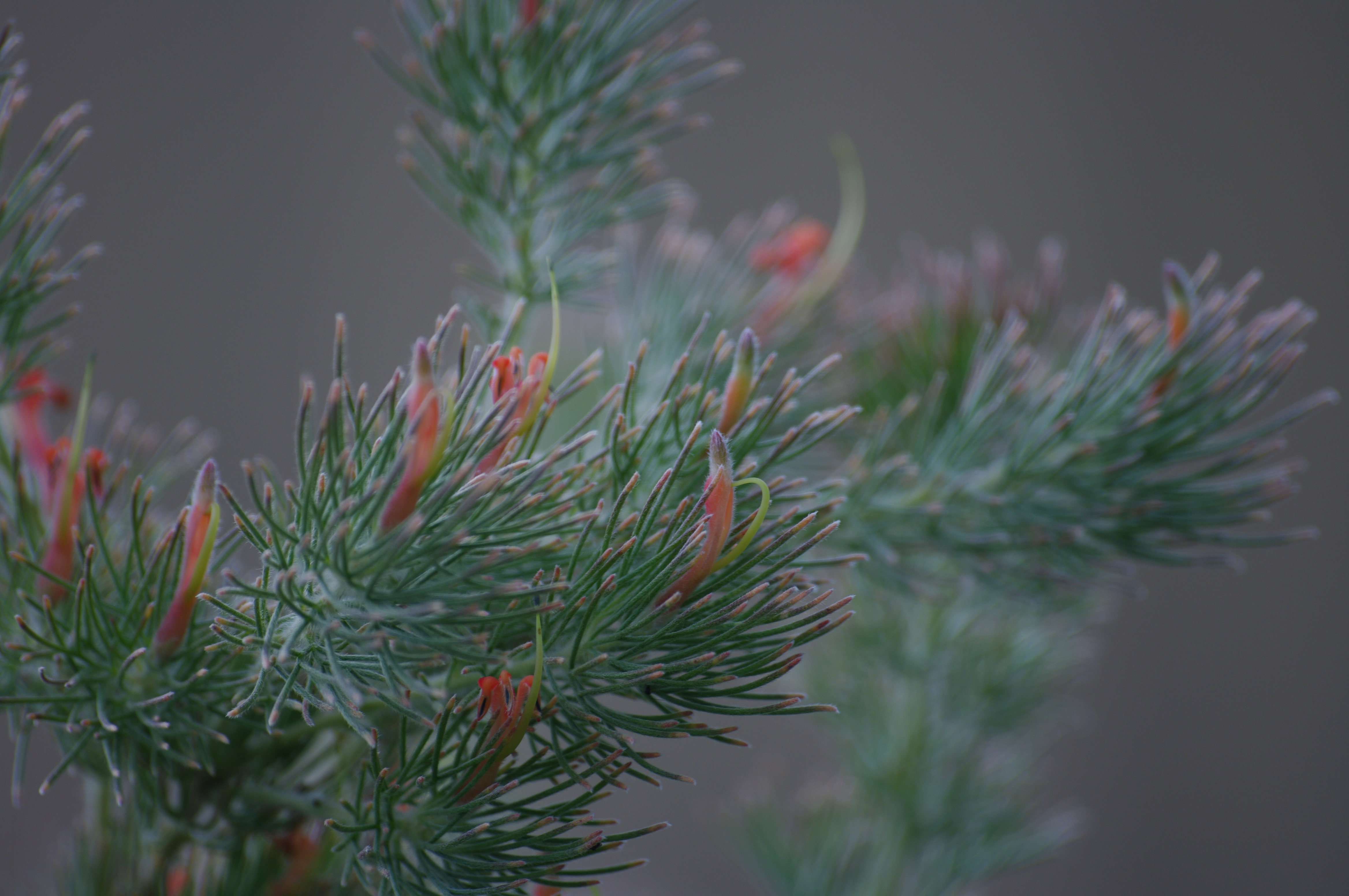 Adenanthos sericeus - Albany Woolybush